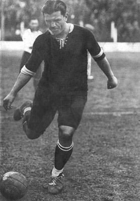 Independiente footballer Manuel Seoane in 1923.